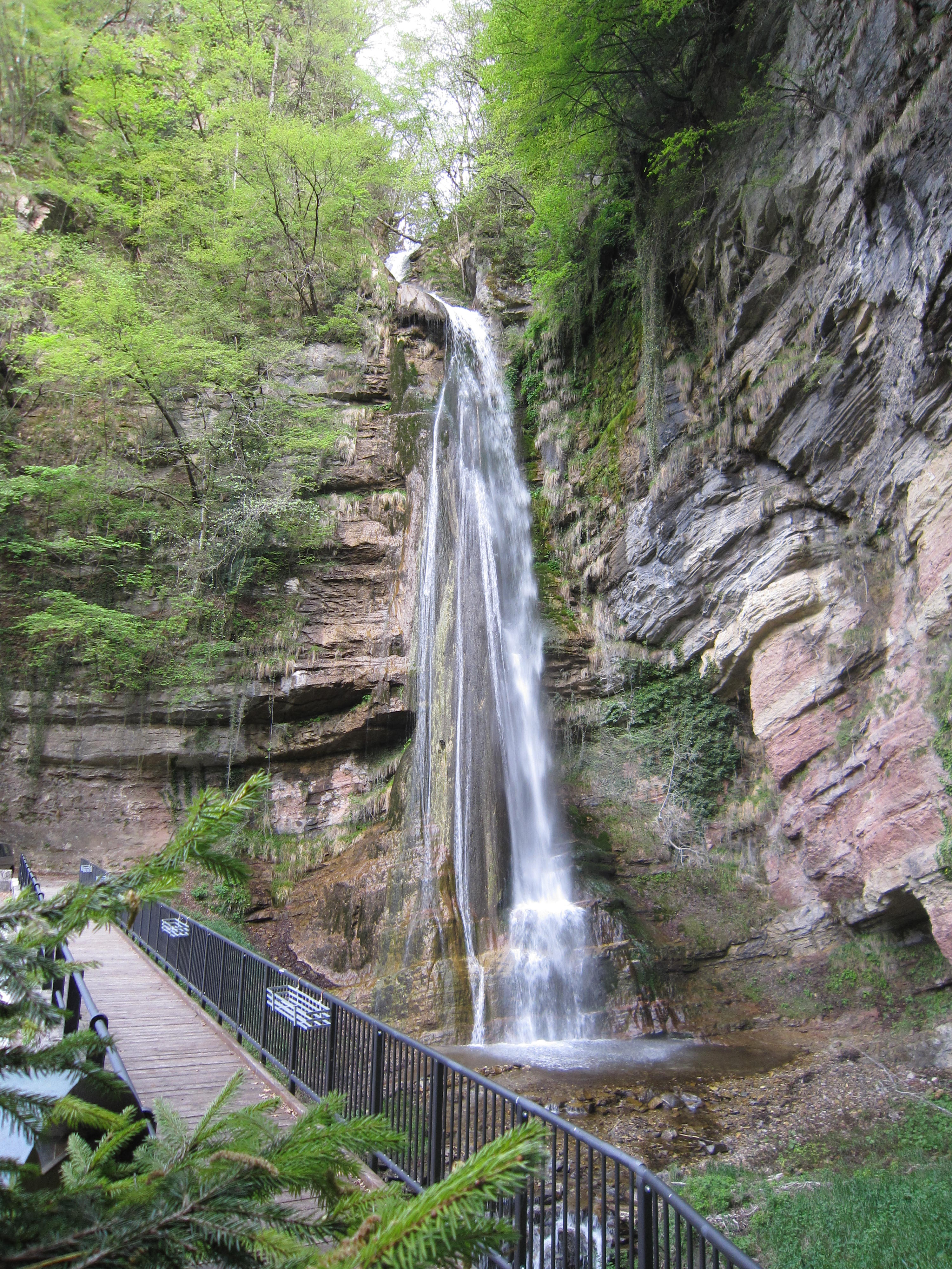 cascata a salino